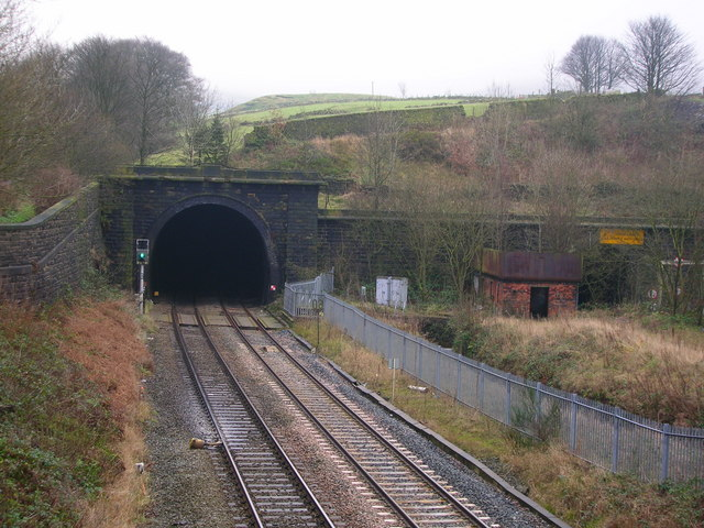 Standedge Rail Tunnel